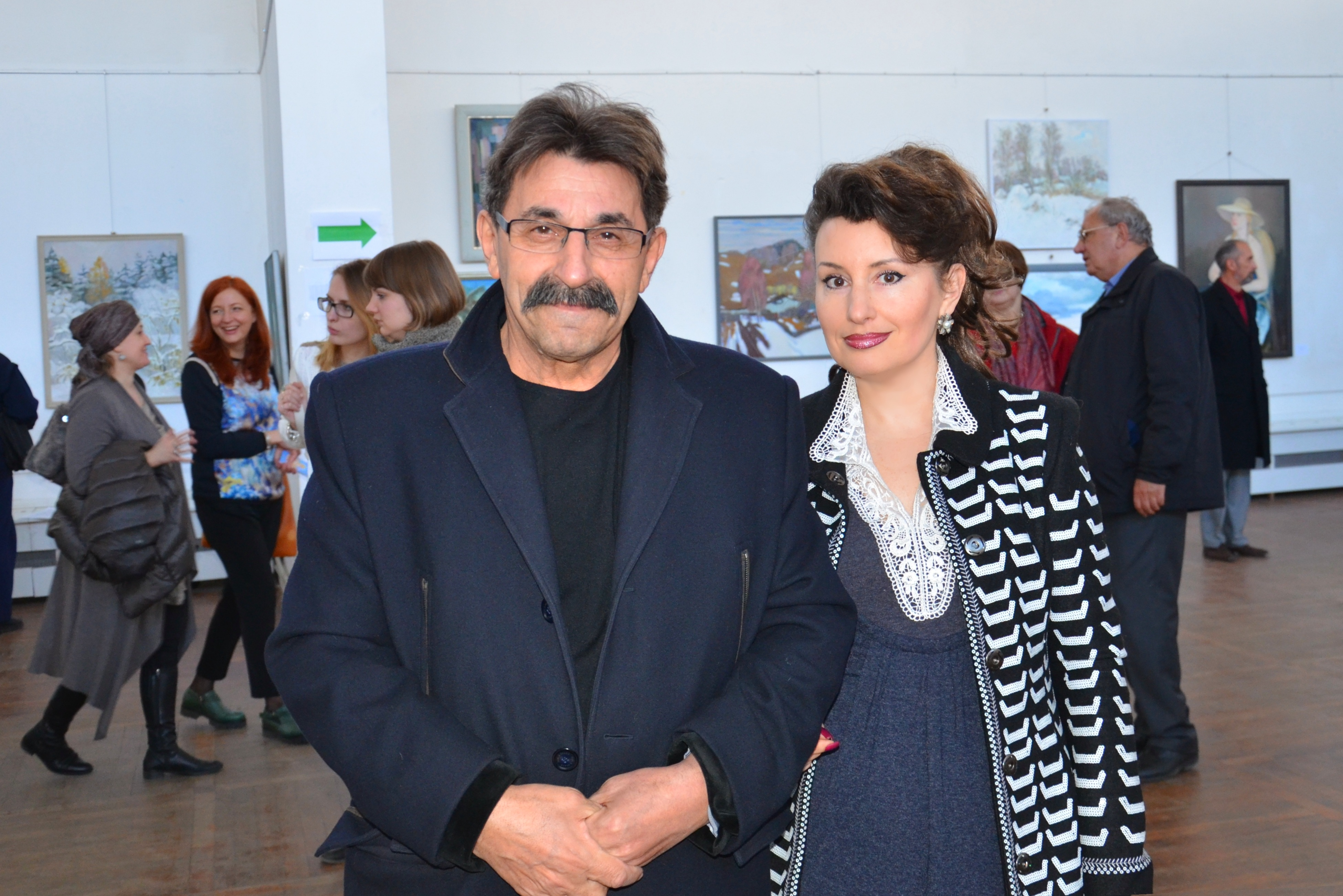 Exhibition LABIRINT II in Palace of Art, Minsk, 14.04.2015